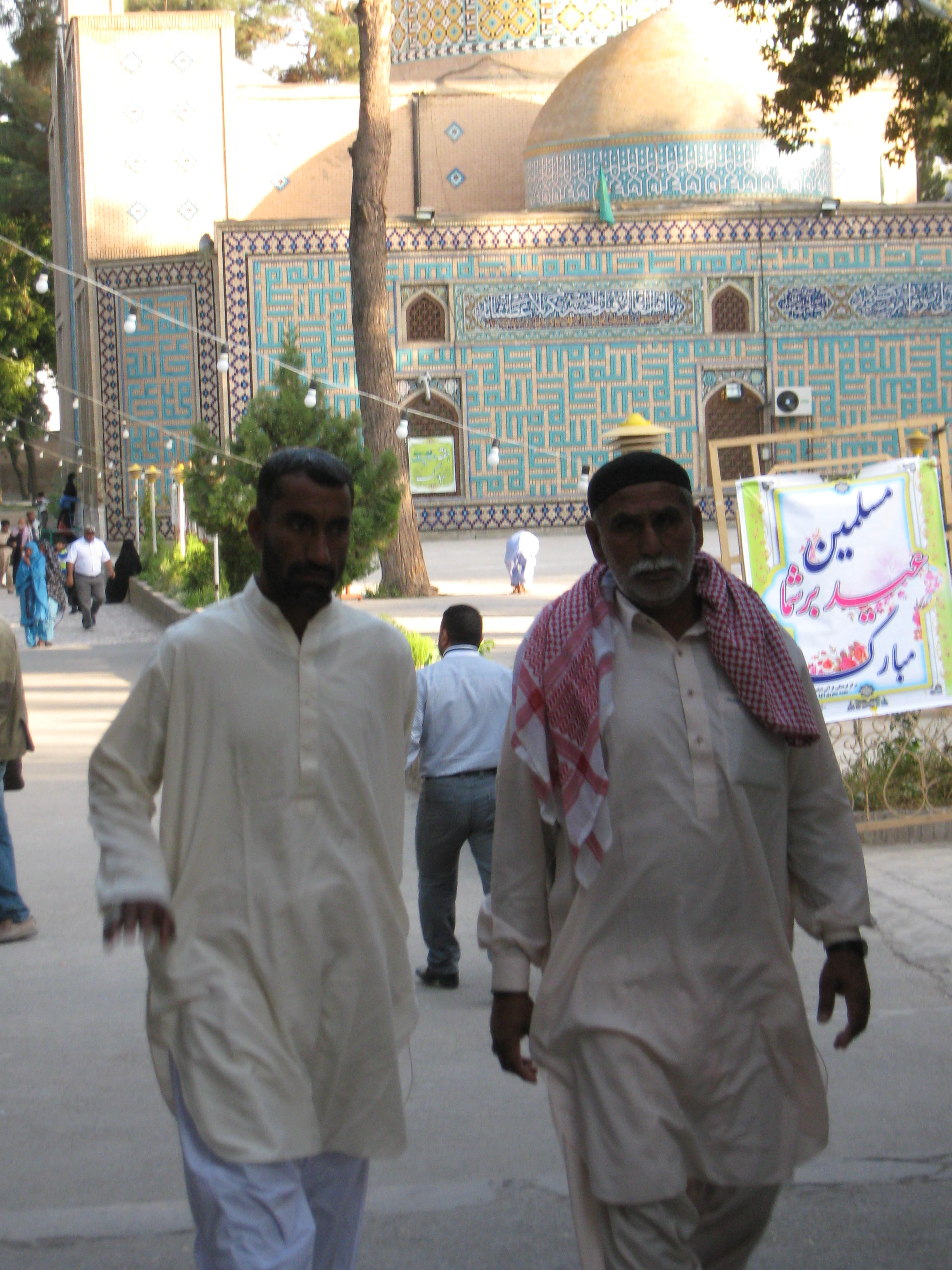 Pakistani pilgrimes of Mohammad al-Mahruq Mosque - October 15,2013 - Nishapur